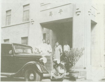 Tsinghua students Farewell Ping Zhai